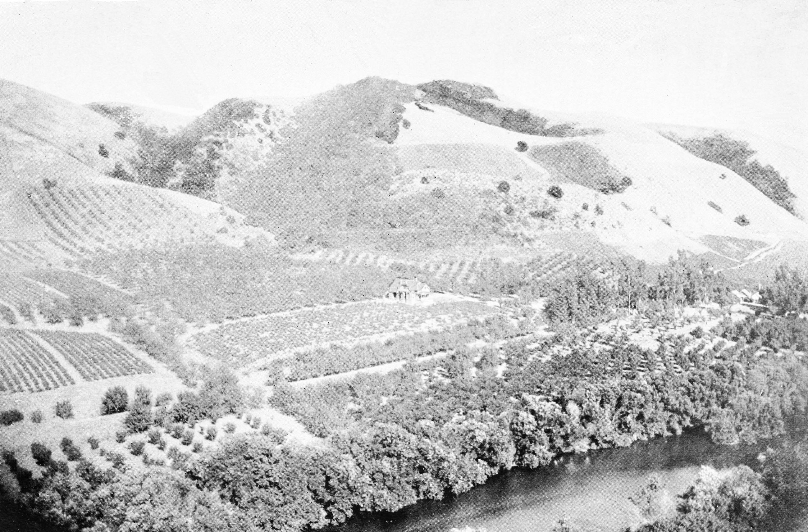 Hillside vines and trees in Niles canyon